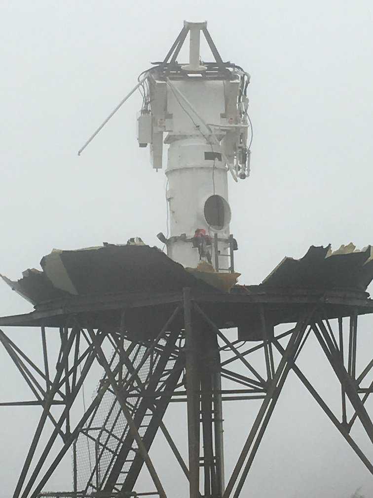 Current situation of the NEXRAD Doppler radar after Hurricane María as of Septembre 24, 2017.